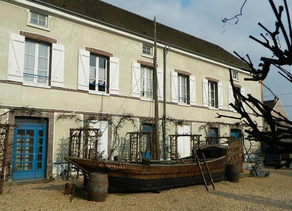 Boat in courtyard of Dreux Wine-growers and Craftsmen Ecomuseum, Eure-et-Loir (France).